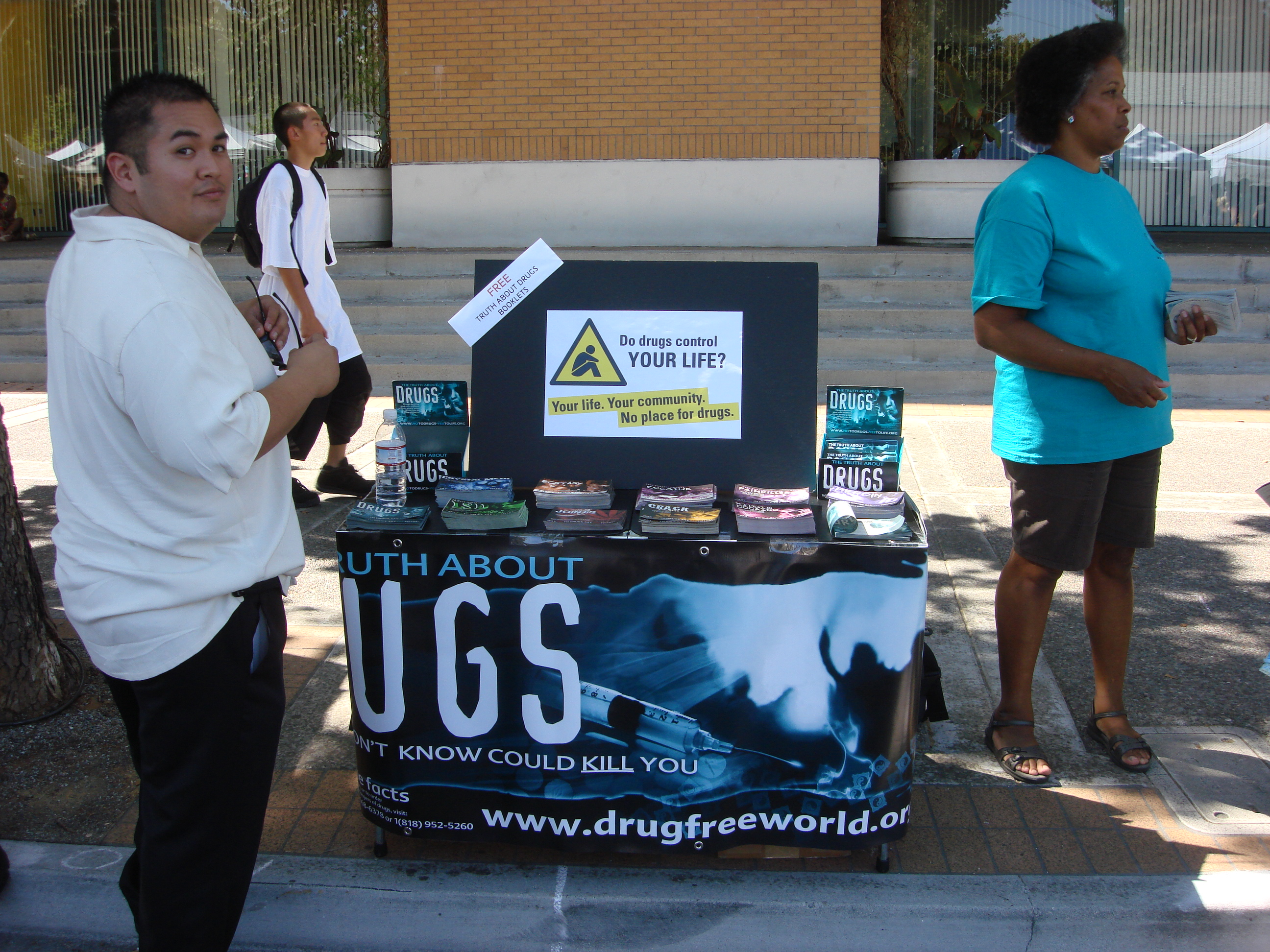 guy in the white shirt is one of their plane clothes handlers i think